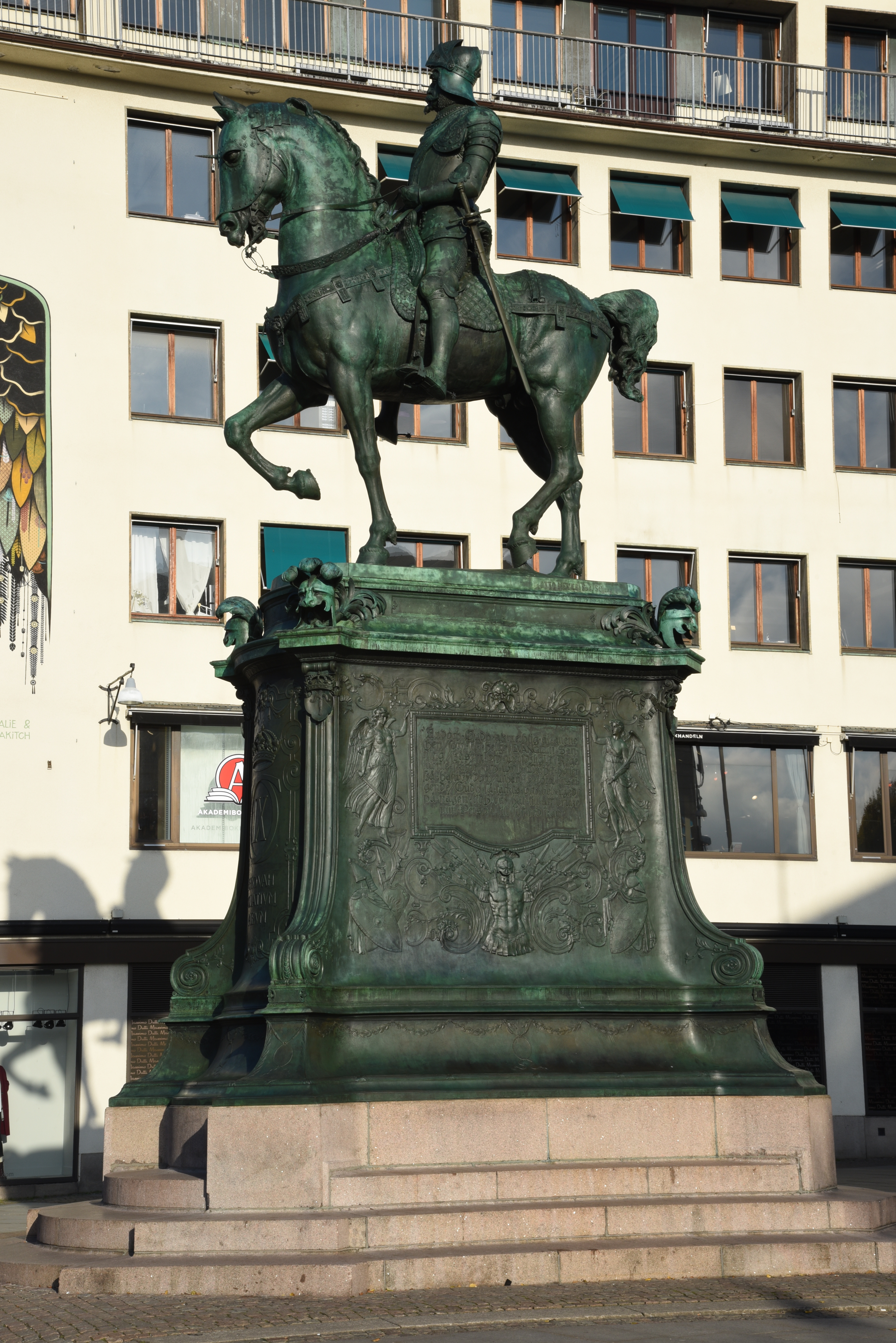 The statue of king Charles IX of Sweden at Kungsportsplatsen i Gothenburg. After restauration in 2018.